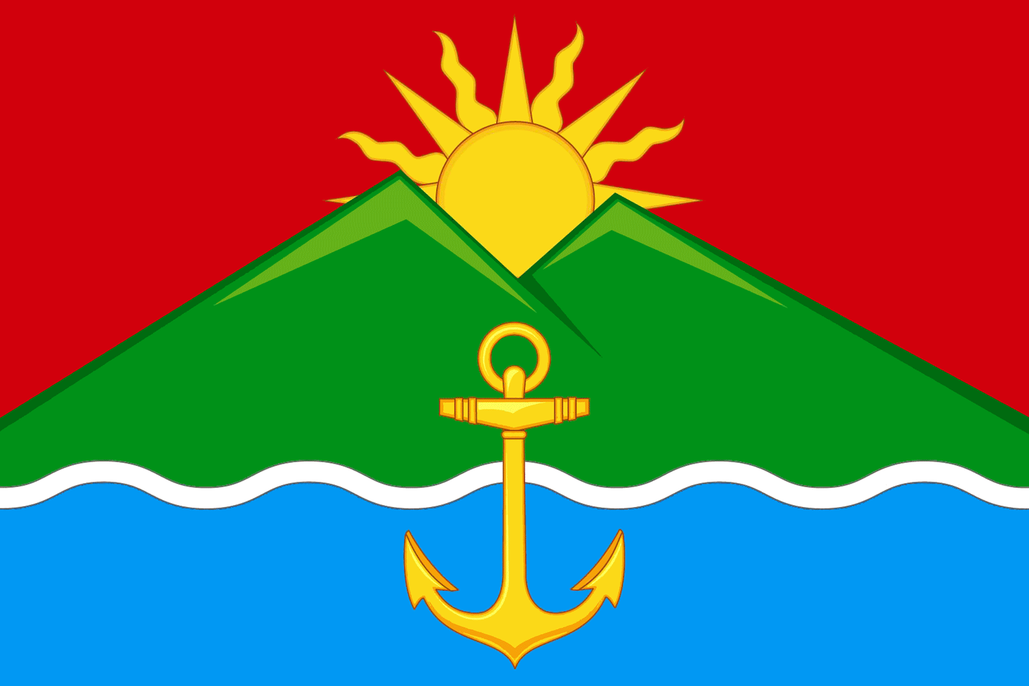 Flag of Khasansky rayon, Primorsky Krai, Russia